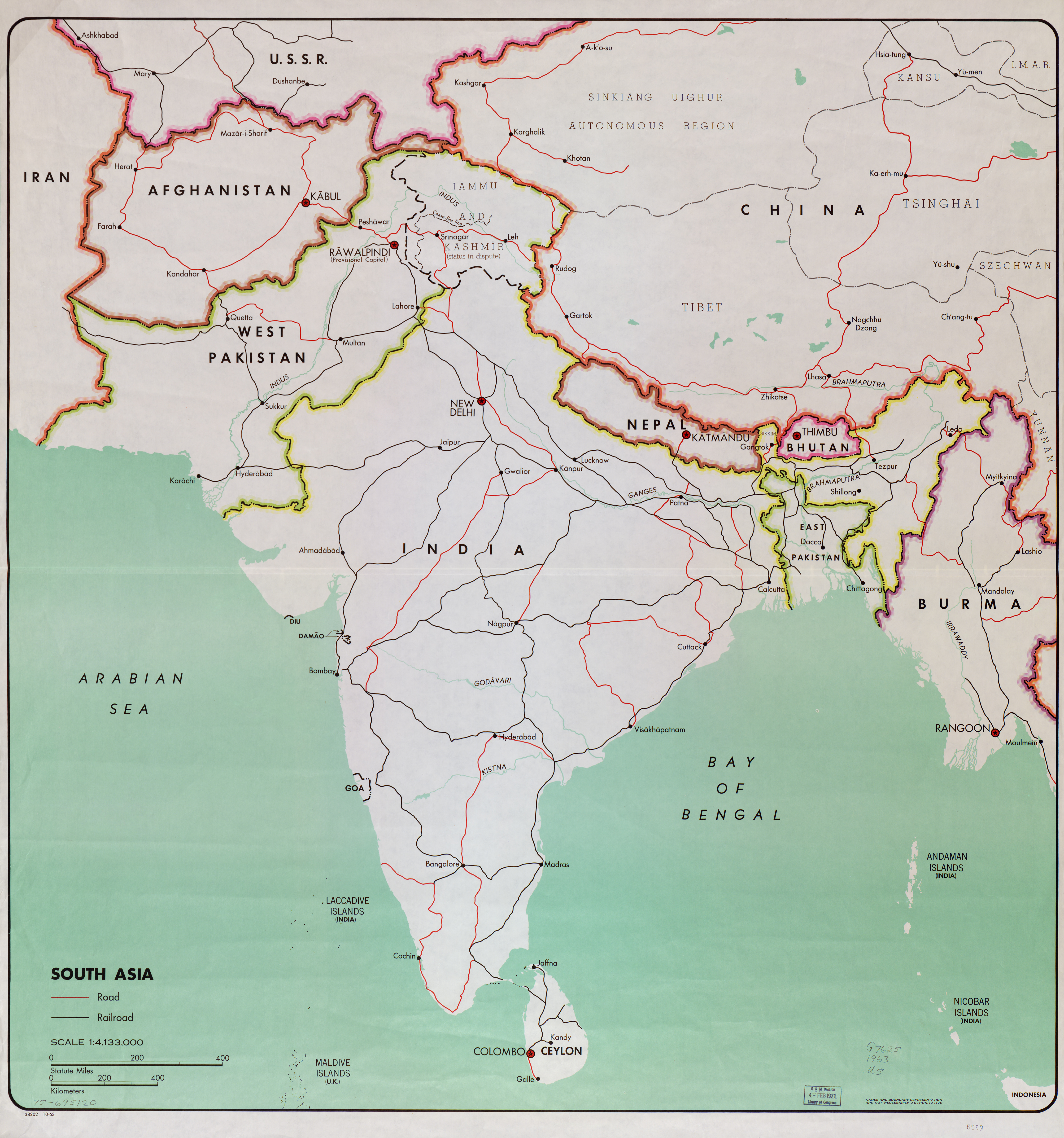 1963 South Asia